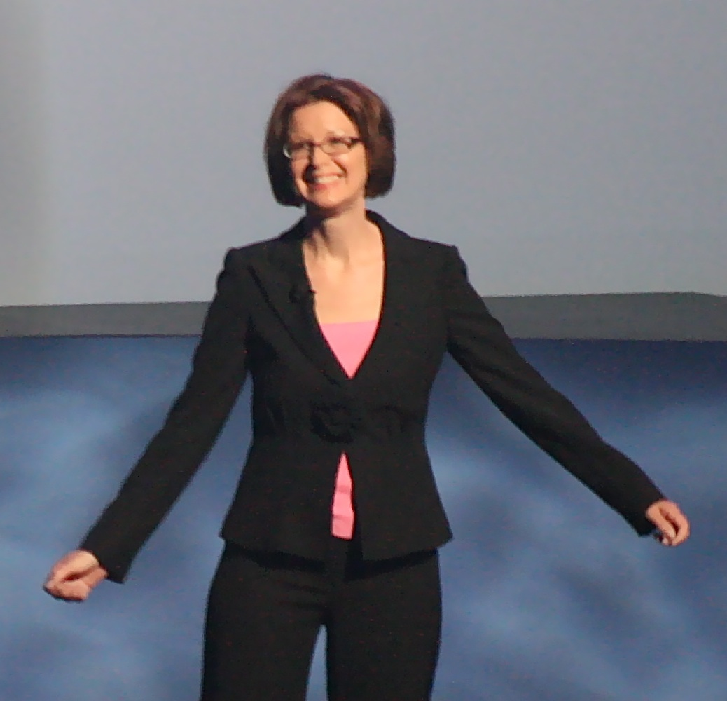 Cammie Dunaway from Nintendo's 2008 E3 Media Briefing.